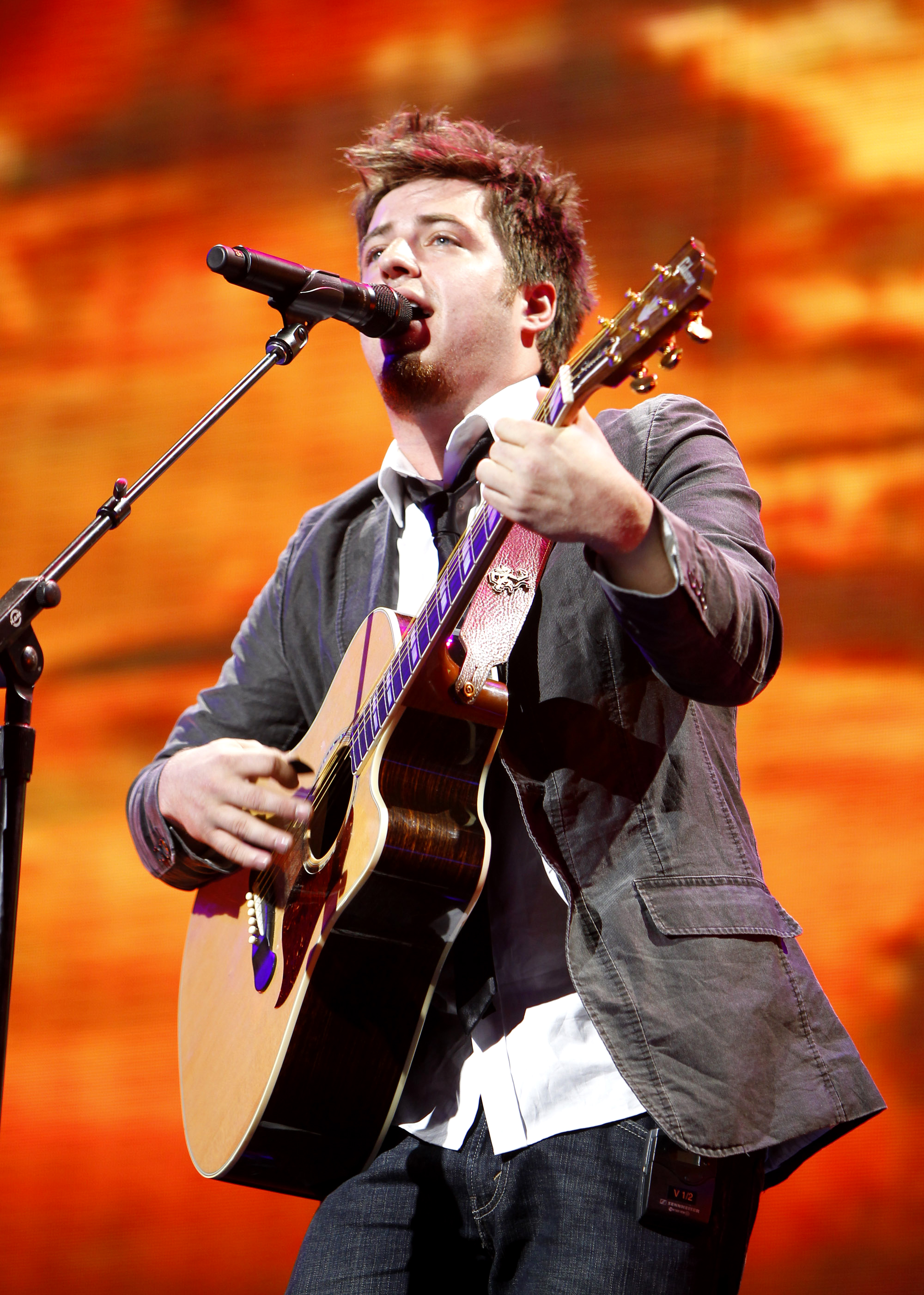 Lee DeWyze performs at the 2010 Walmart Shareholders' Meeting at Bud Walton Arena in Fayetteville, Ark, on Friday, June 4, 2010.